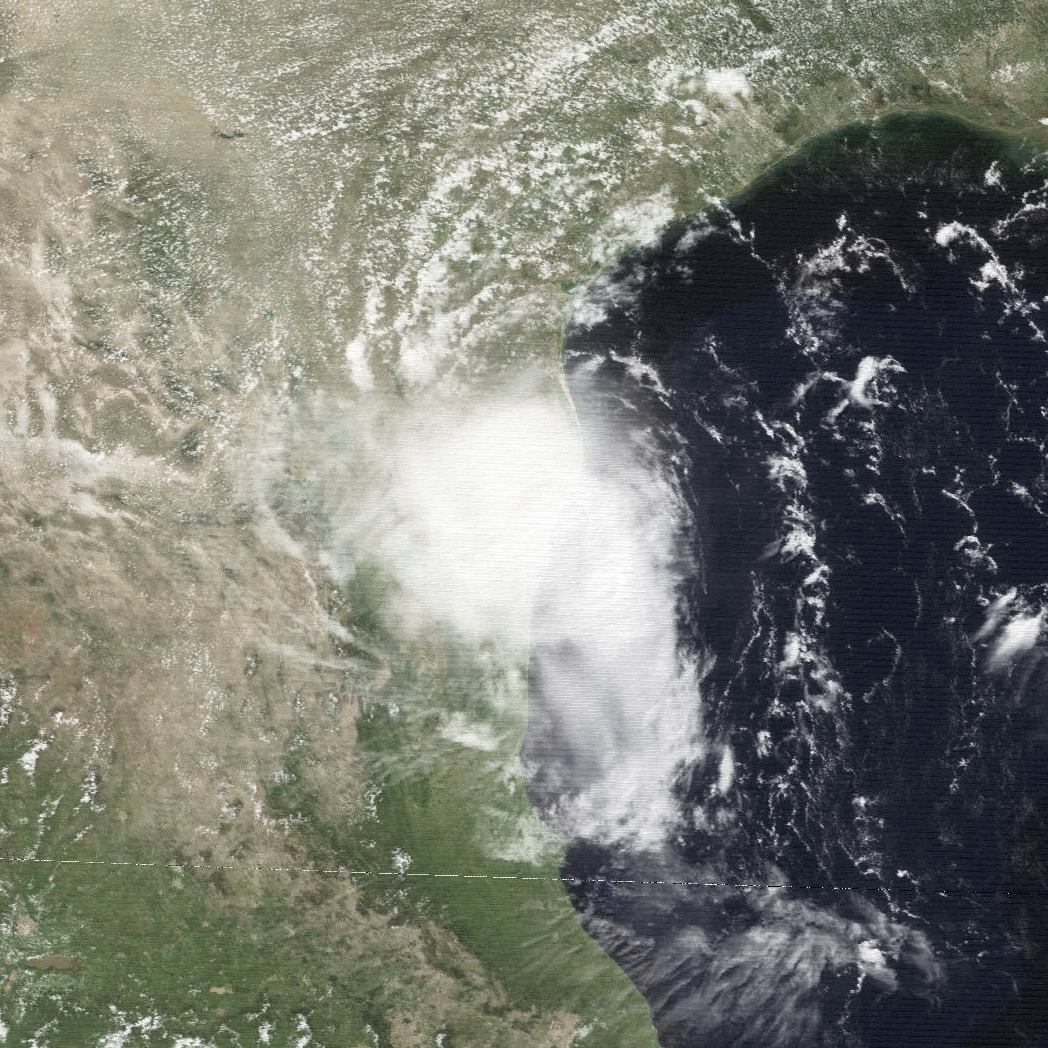 Hurricane Barry making landfall on the Gulf Coast of Mexico on August 28, 1983